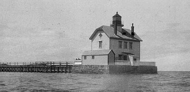 Edgartown Harbor Light, MA, 1828 structure